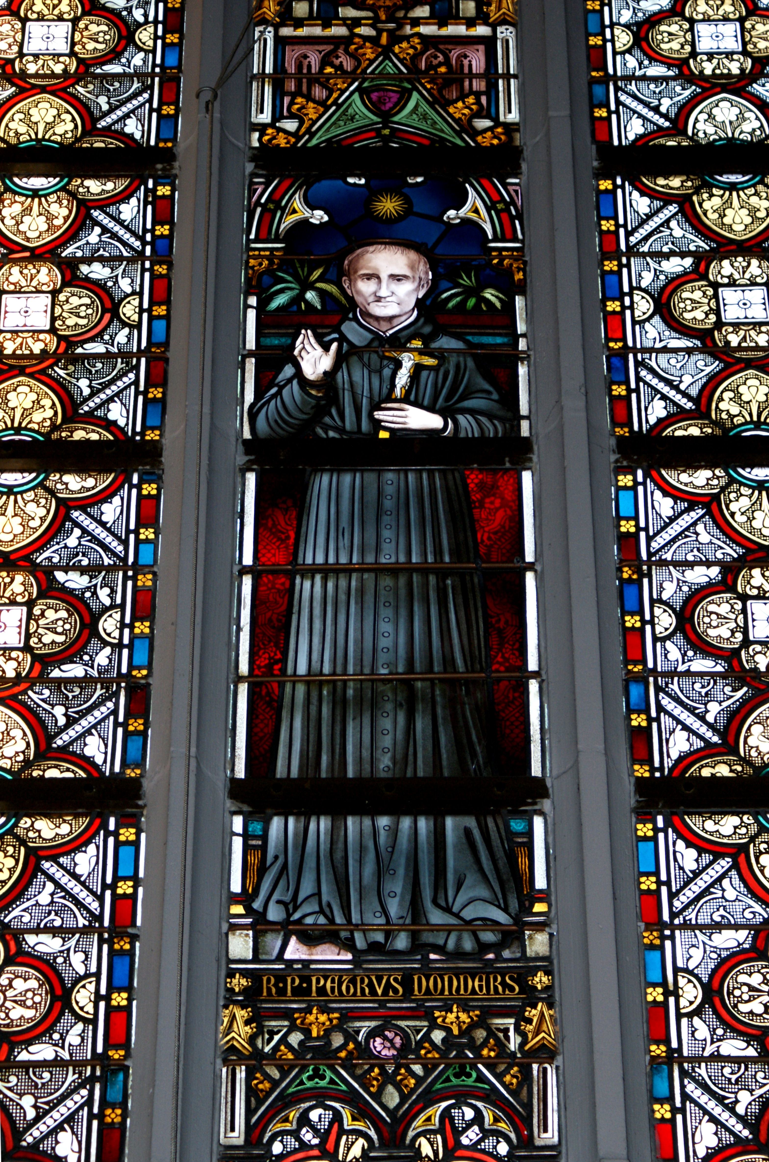 Petrus Donders